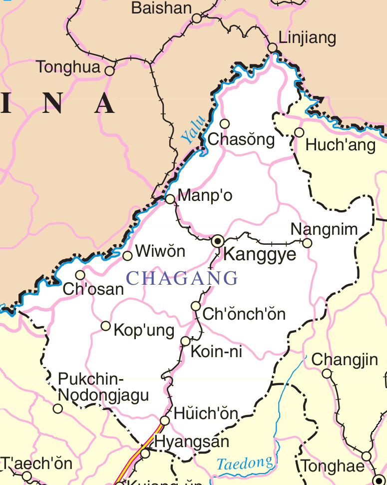 Map of Chagang, cropped from Un-north-korea.png